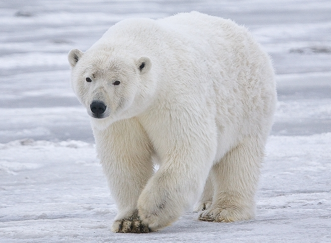 Sow Polar bear (Ursus maritimus) near Kaktovik, Barter Island, Alaska.